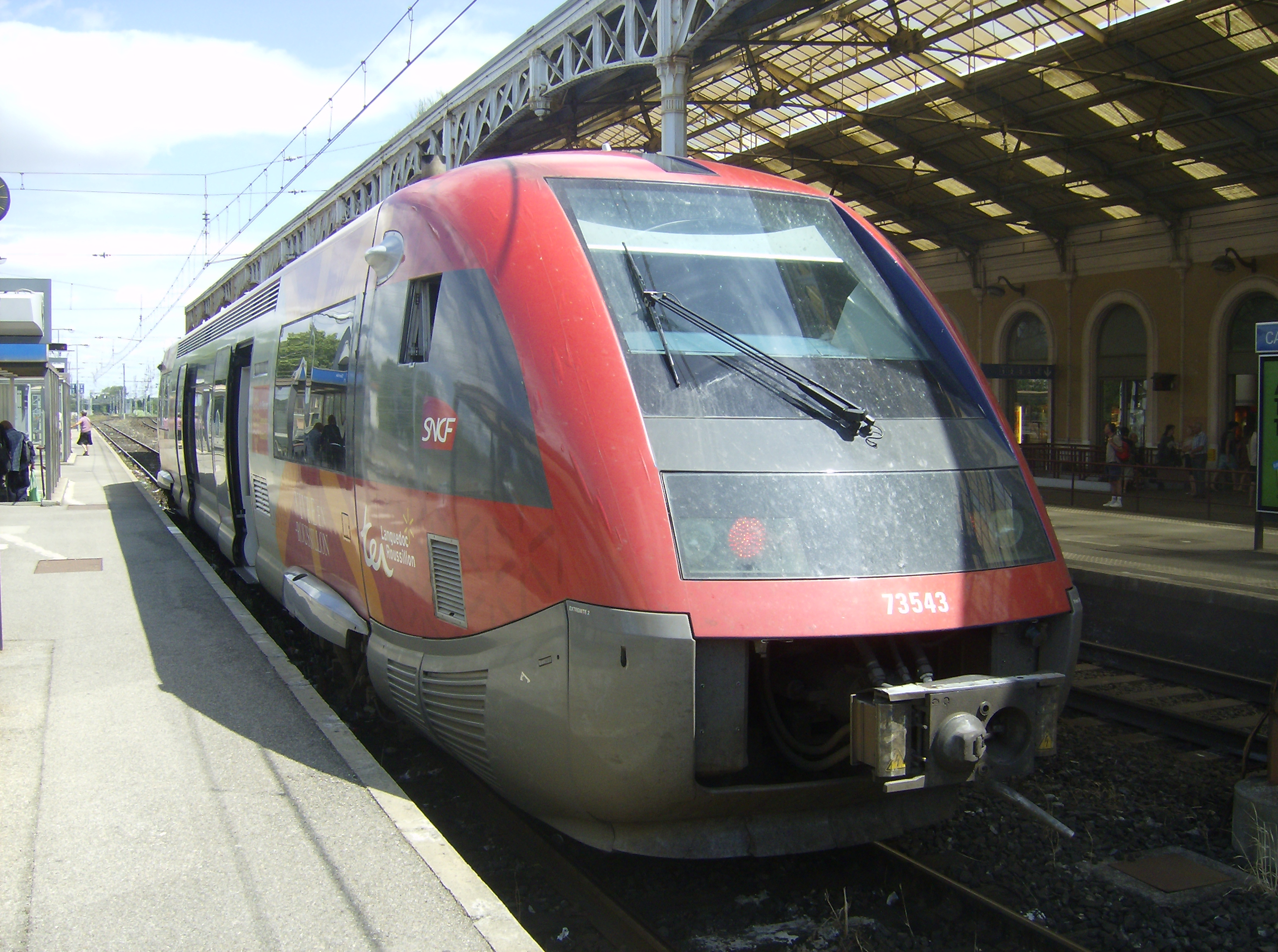 A TER service to Quillan, operated by SNCF X73543